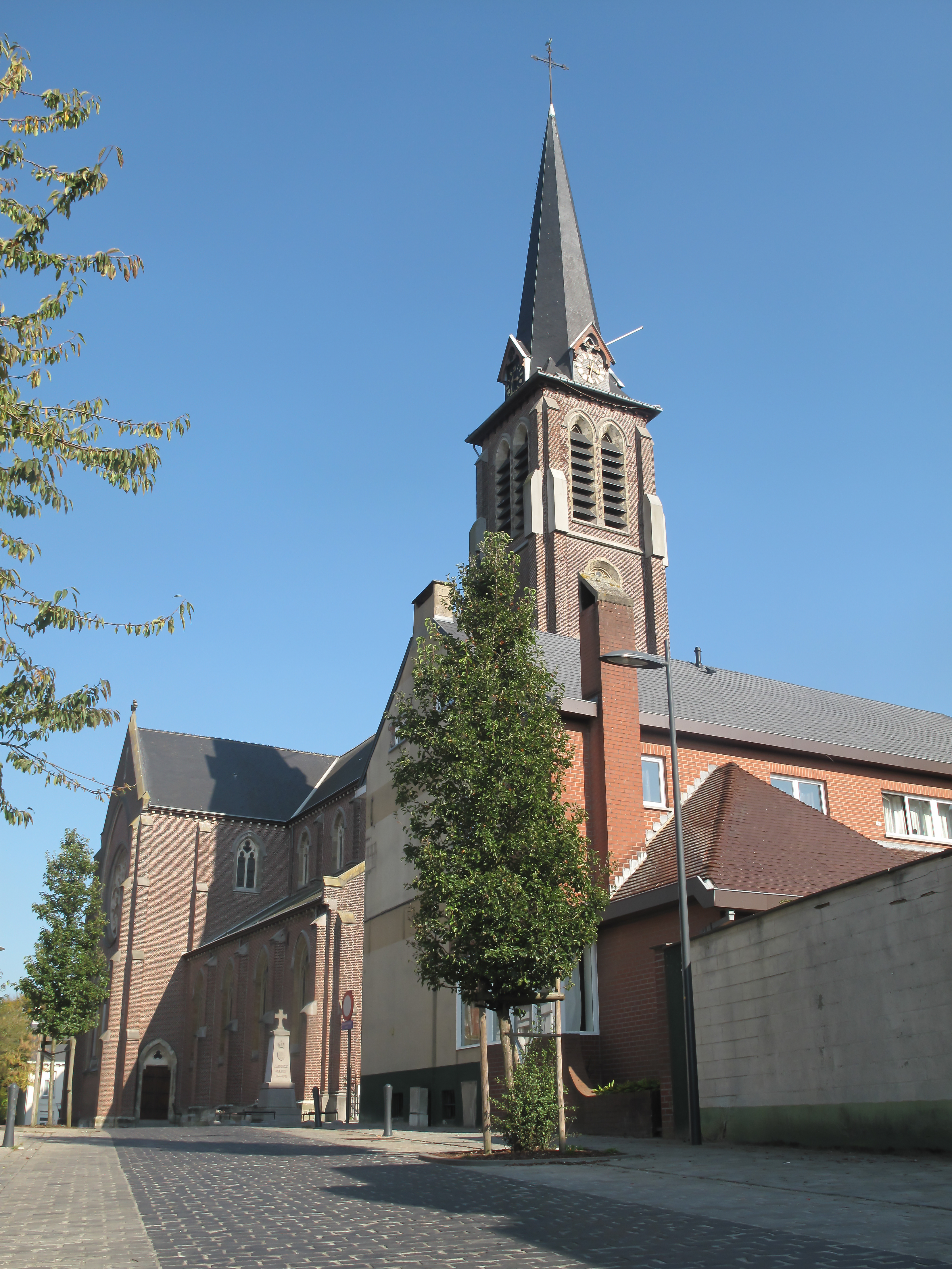 Haaltert, church: Sint Gorikskerk